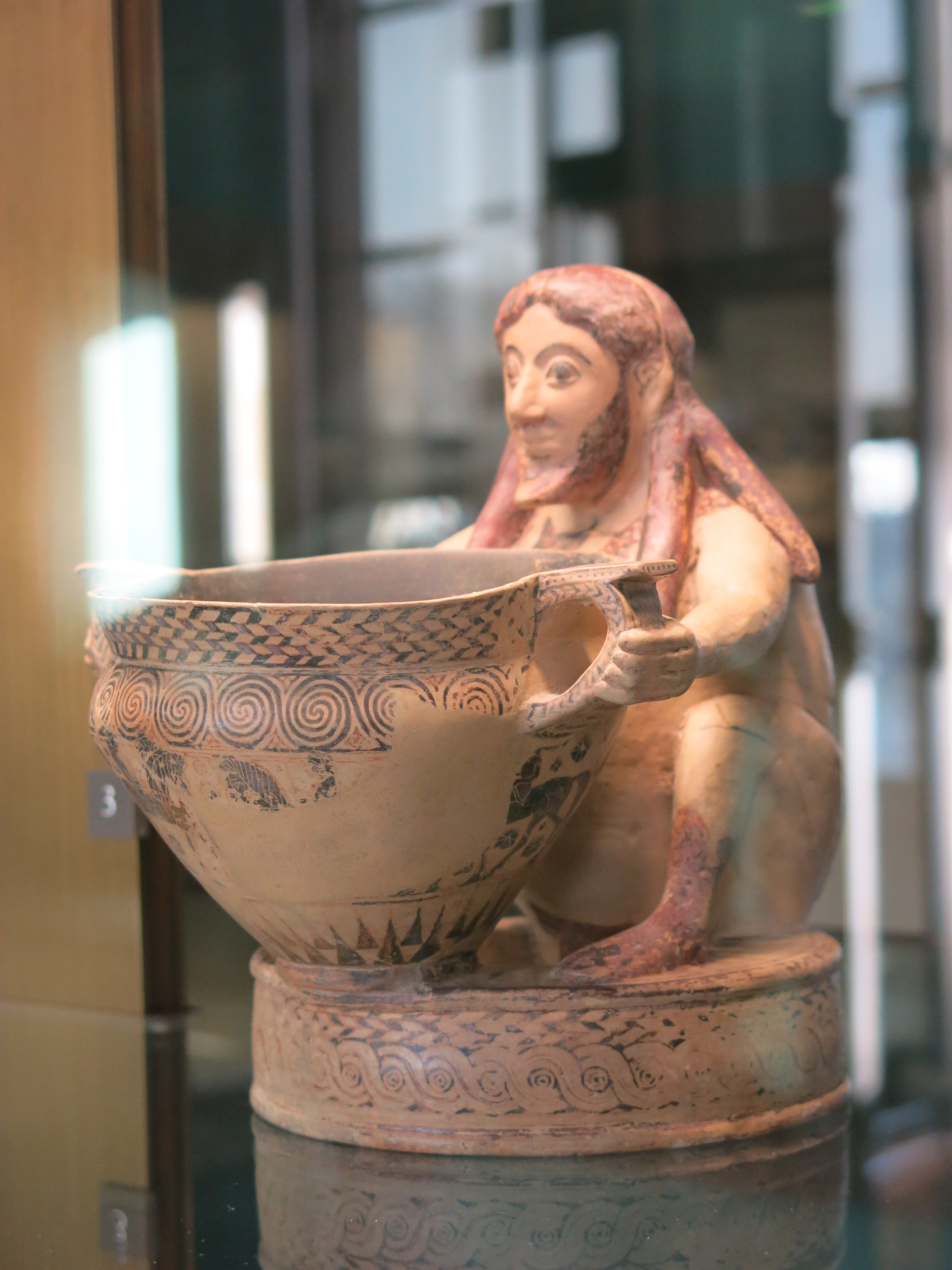 Corinthian plastic vase (skyphos) in form of a drinker (komast), ca. 580-570 BC. From Corinth. Louvre museum (Paris, France).